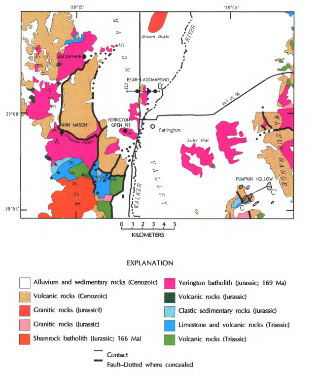 Yerington Batholith geologic map